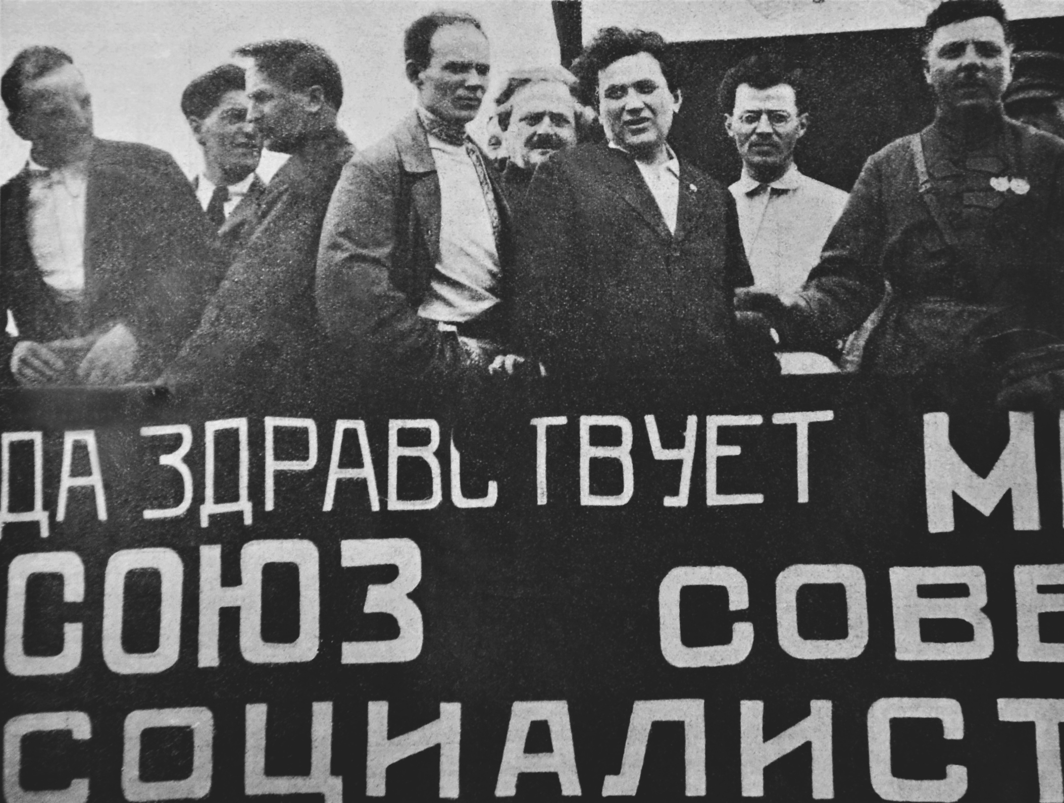 On the photo:Kliment Voroshilov first on the right, Grigory Zinoviev third from the right, Avel Enukidze fourth from the right and Nikolay Antipov fifth from the right. The meeting is dedicated to the red banner from the Paris Commune, brought to Moscow by French communists.